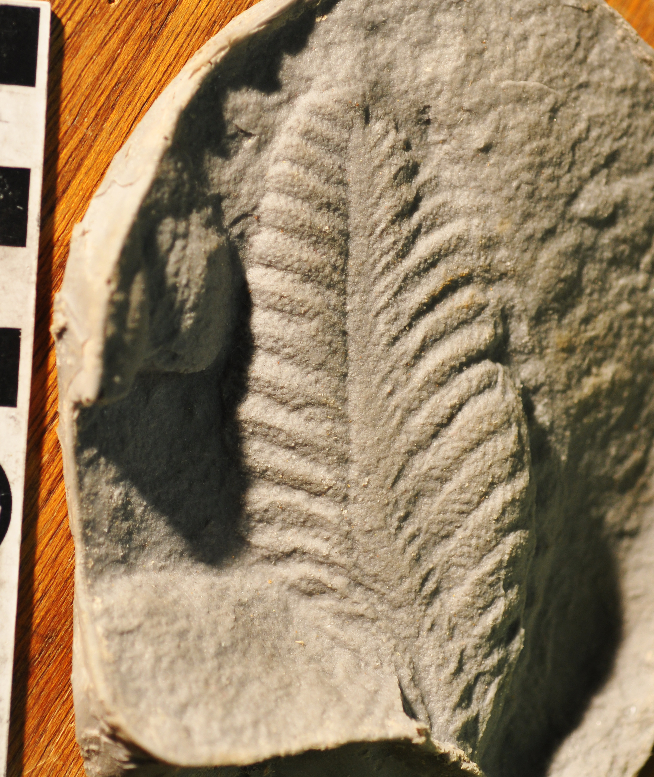 holotype specimens of Rangea scheiderhoehni from the Ediacaran Kliphoek Member of Dabis Formation on farm Aar, near Aus, Namibia